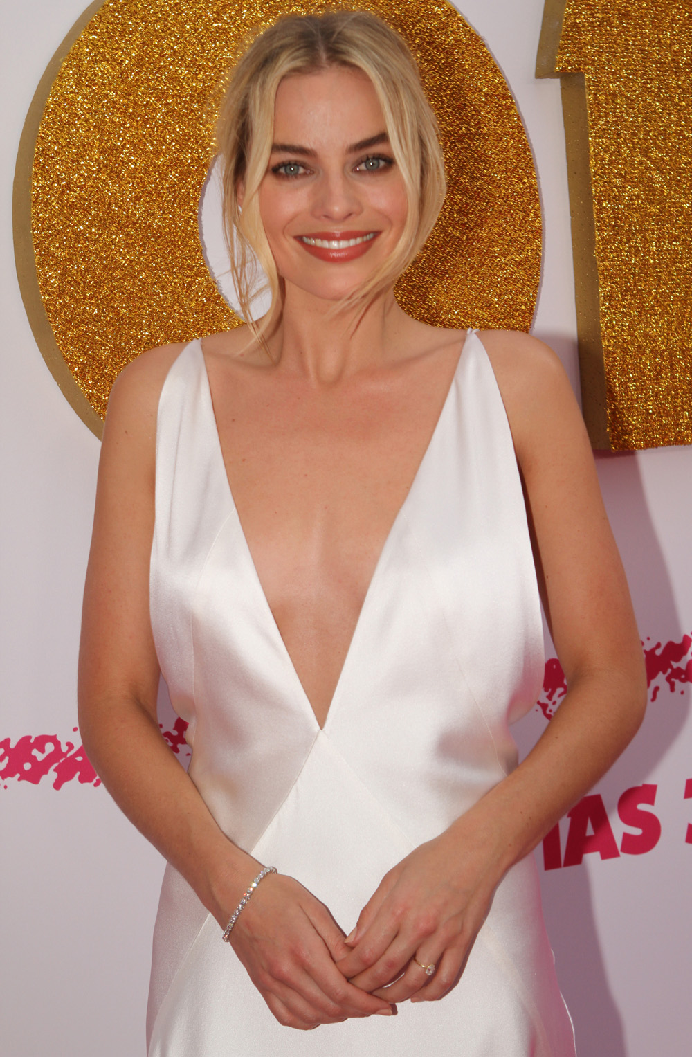 SYDNEY, AUSTRALIA - JANUARY 23 Margot Robbie arrives at the Australian Premiere of 'I, Tonya' on January 23, 2018 in Sydney, Australia photo by Eva Rinaldi